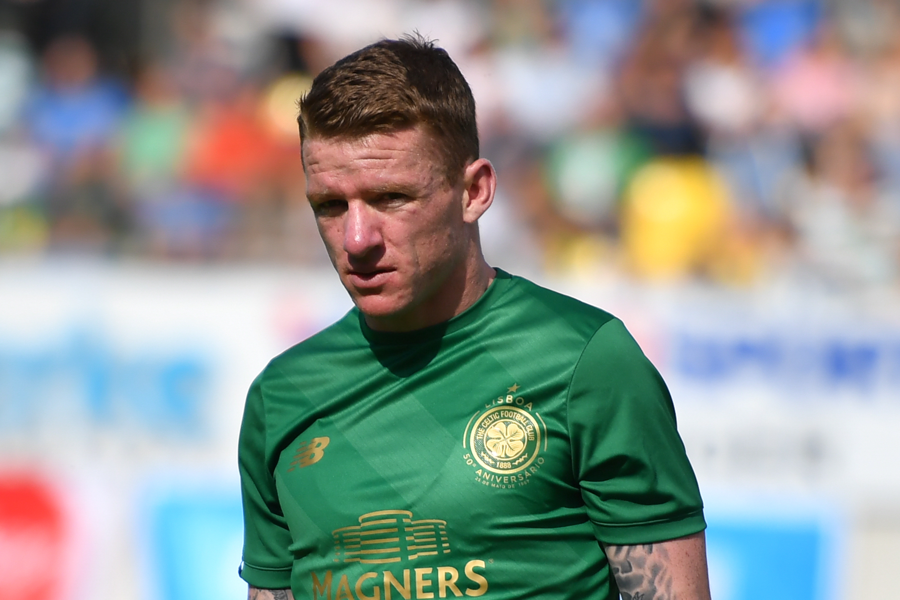 1/7/2017, Amstetten, Austria, sports, soccer, Tipico Fussball Bundesliga - preparation match SK Rapid Wien vs Celtic Glasgow. Image shows Jonny Hayes (Celtic FC).